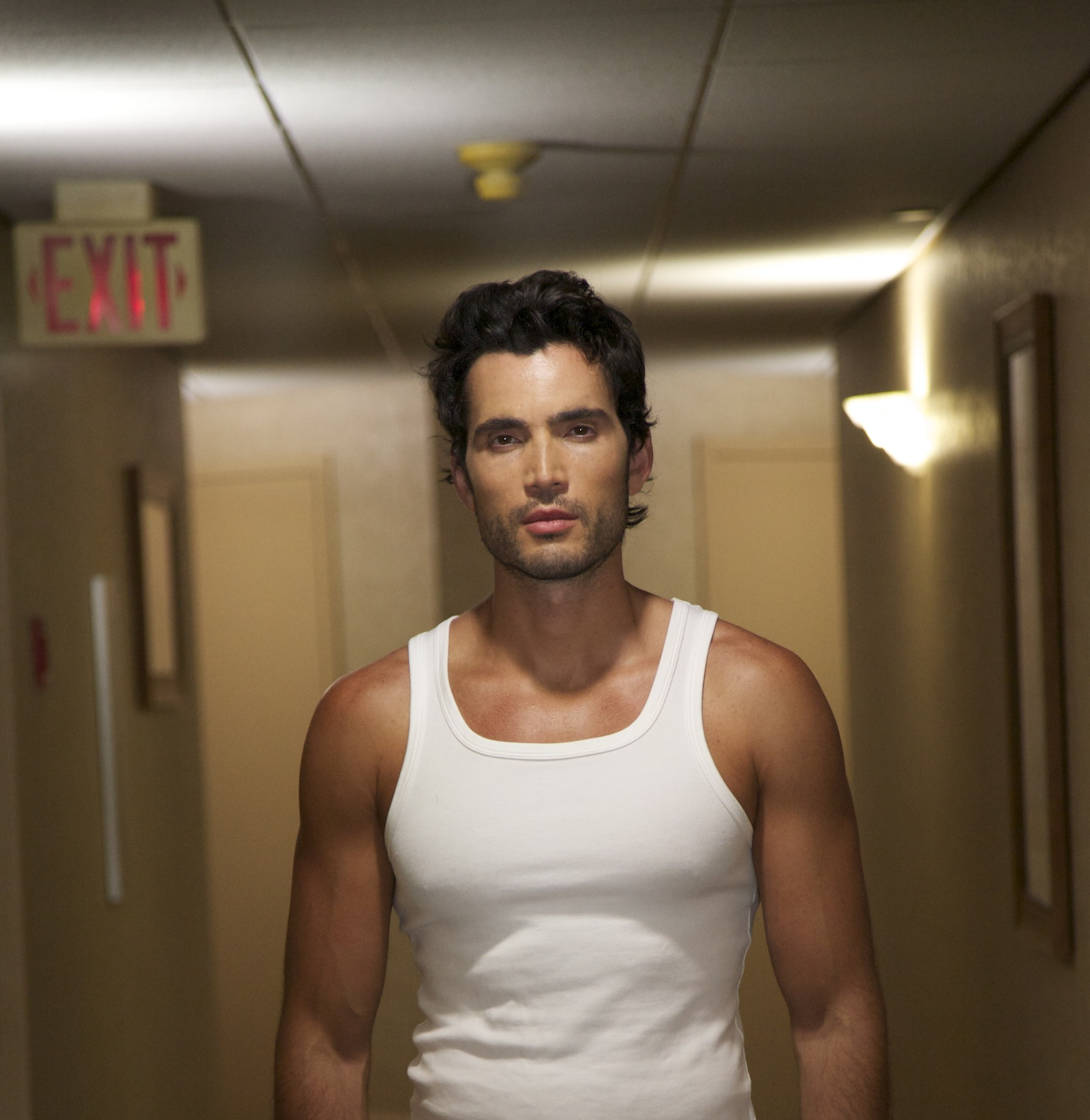 photo of actor Khotan